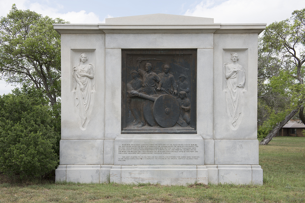 Title: Waldine Tauch was chosen by the Texas Centennial Commission to create "The First Shot Fired For Texas Independence" (1935), a life-sized bronze bas-relief, set in granite seven miles southwest of Gonzales, near the site of the Battle of Gonzales that ignited the Texas Revolution Physical description: 1 photograph : digital, tiff file, color. Notes: Title, date, and keywords based on information provided by the photographer.; Gift; The Lyda Hill Foundation; 2014; (DLC/PP-2014:054).; Forms part of: Lyda Hill Texas Collection of Photographs in Carol M. Highsmith's America Project in the Carol M. Highsmith Archive.; Tauch, a Texas-born sculptor, was a student and associate of Pompeo Coppini.; Credit line: The Lyda Hill Texas Collection of Photographs in Carol M. Highsmith's America Project, Library of Congress, Prints and Photographs Division.